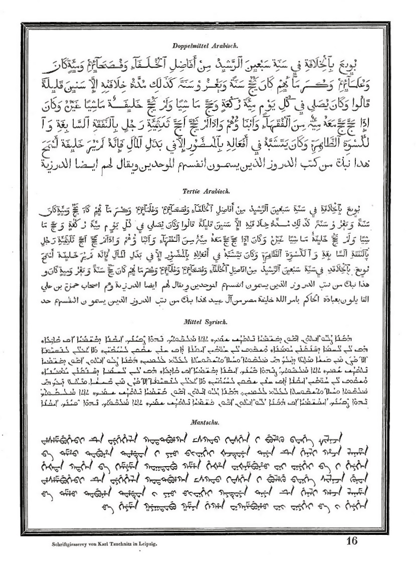 specimen of Arabic typefaces from Carl Tauchnitz' type foundry